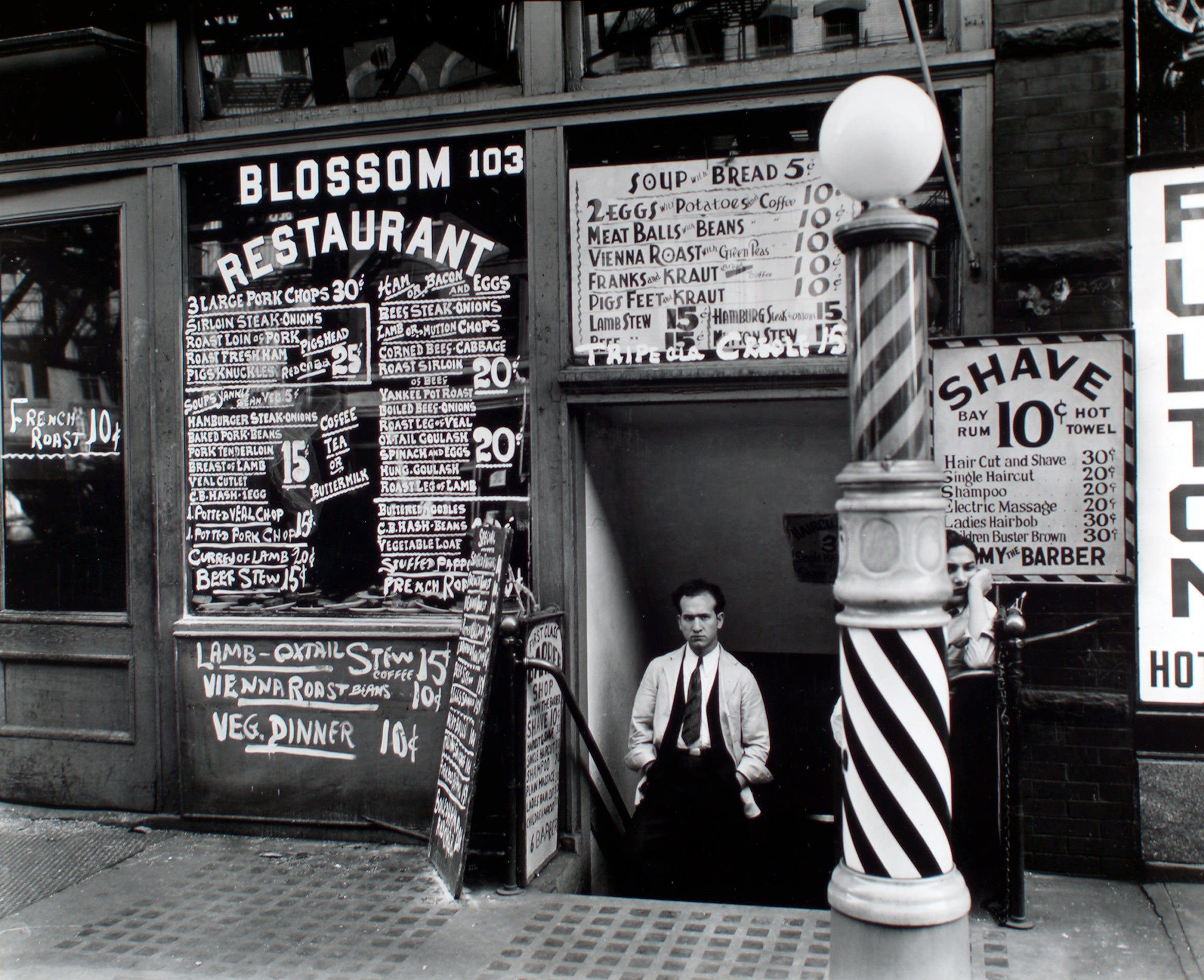 Blossom Restaurant; 103 Bowery. Oct. 3, 1935; by Berenice Abbott (1898-1991) from her "Changing New York" Works Progress Administration/ Federal Art Project